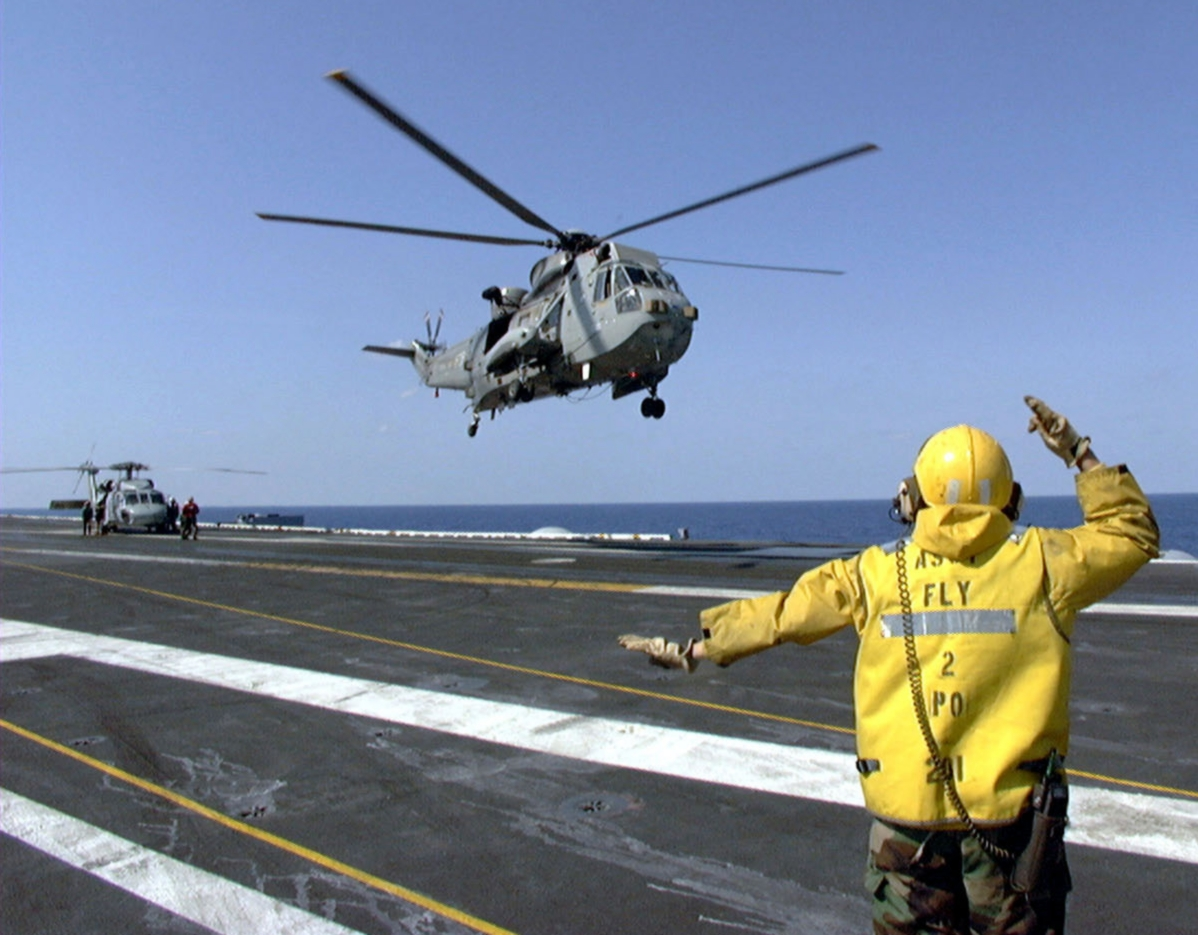 A Royal Navy Westland Sea King HAS.6 helicopter from 820 Naval Air Squadron assigned to the the aircraft carrier HMS Illustrious (R06) prepares to land on board the U.S. Navy aircraft carrier USS Enterprise (CVN-65) with a medical emergency, off the south eastern coast of Virginia (USA) on 28 April 1996. Both ships were participating in the "Combined Joint Task Force Exercise" (CJTFX) '96, as part of a multinational force of over 50,000 soldiers, sailors, airmen and Marines from Canada, Britain and the United States.